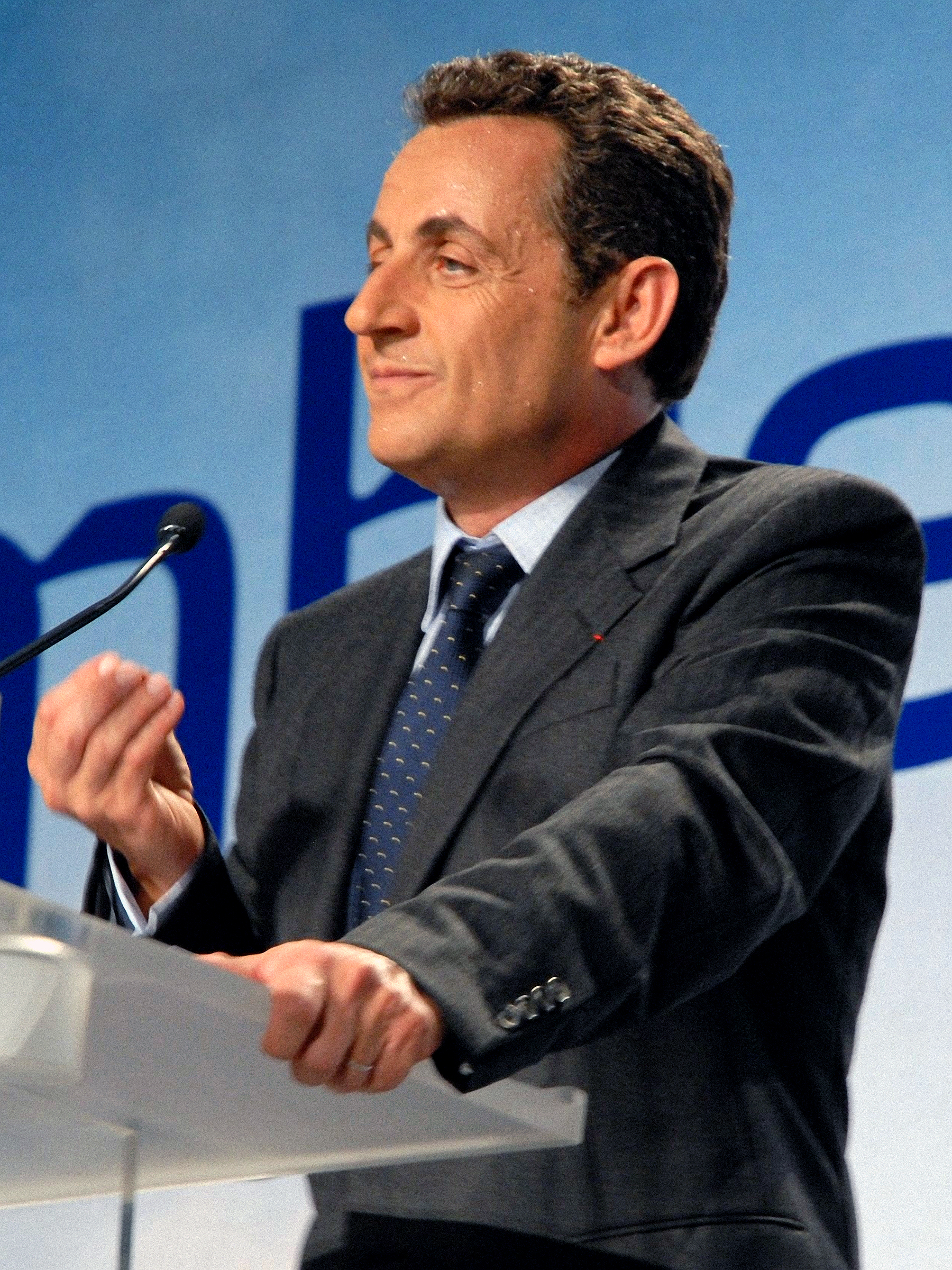 Nicolas Sarkozy during his meeting in Toulouse on April, 12th 2007 for the 2007 presidential election campaign.